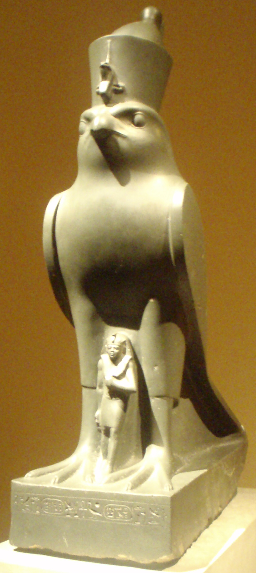 Graywacke statuette depicting Nectanebo II protected by a Horus falcon. Likely from Heliopolis, circa 360-343 B.C.